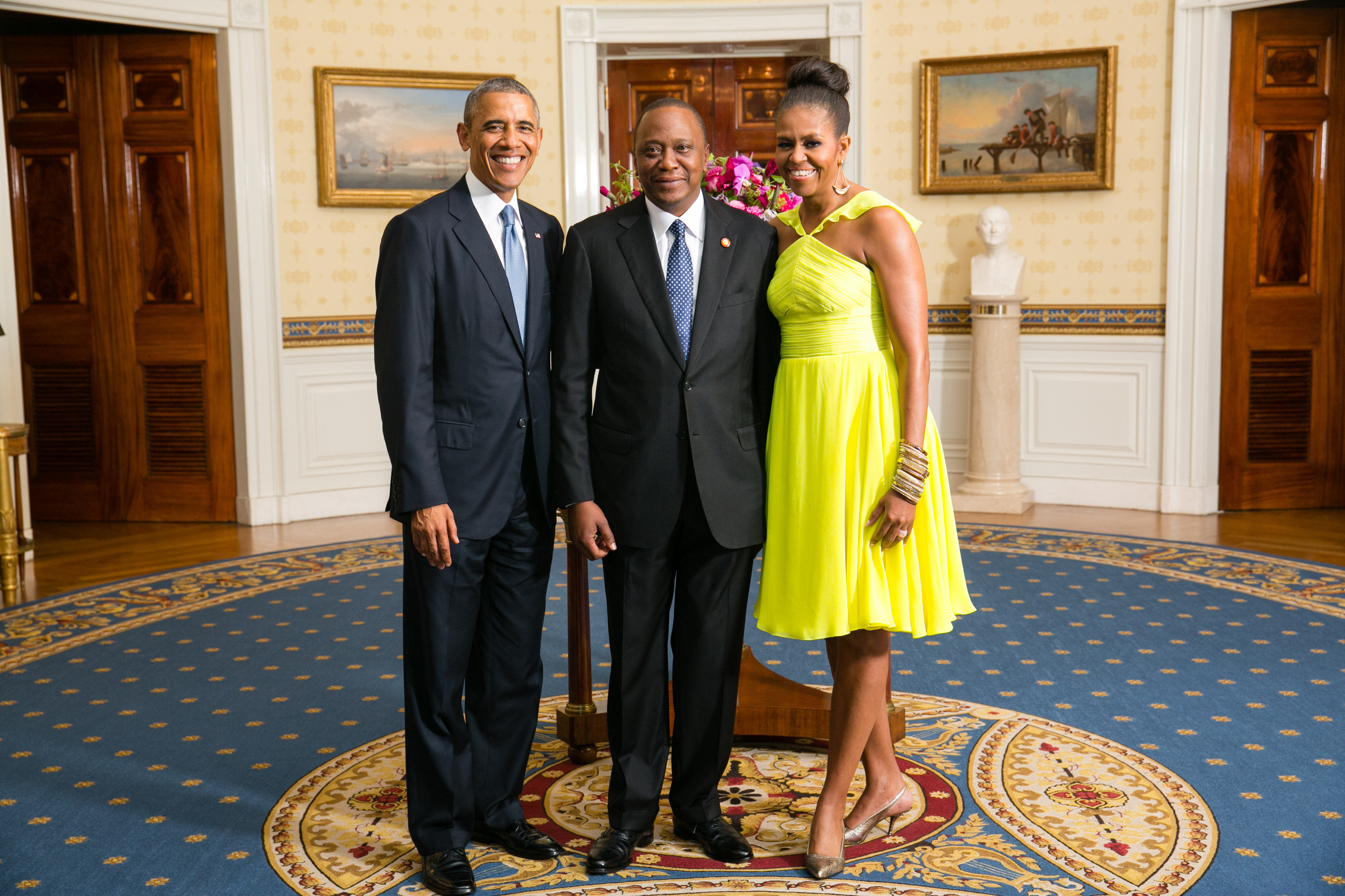 President Barack Obama and First Lady Michelle Obama greet His Excellency Uhuru Kenyatta, President of the Republic of Kenya, in the Blue Room during a U.S.-Africa Leaders Summit dinner at the White House, Aug. 5, 2014. [Official White House Photo by Amanda Lucidon] This official White House photograph is in the public domain from a copyright perspective, so while restrictions such as personality or privacy rights may apply, in general, manipulations are allowed.